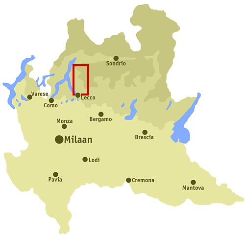 Position of the valley Val Sassina